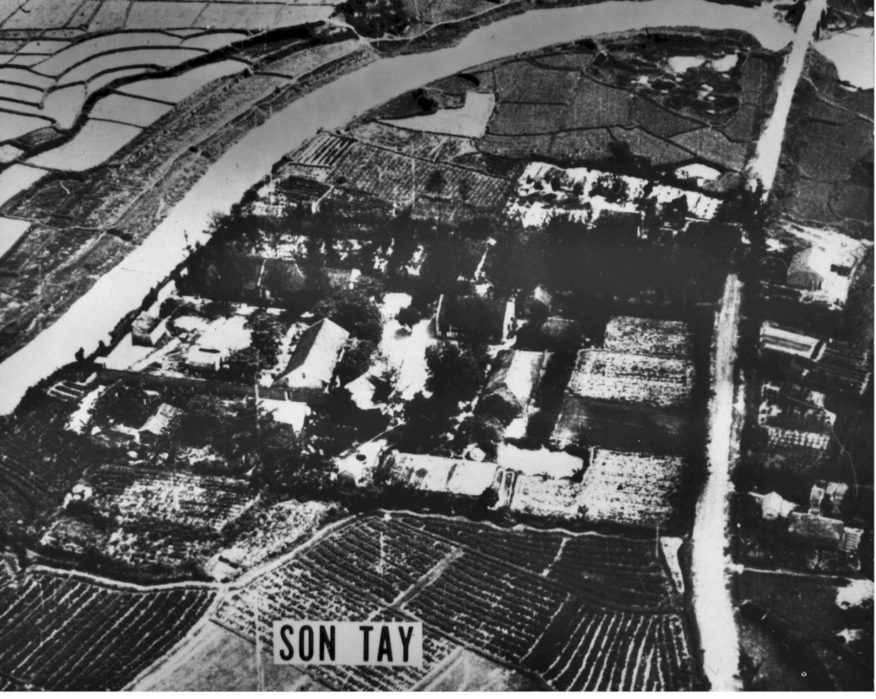 This is a US Government reconnaissance photograph of the Son Tay prison camp in (then) North Vietnam, around October or early November 1970 (date not known). It is a US government created image and is not subject to copyright.